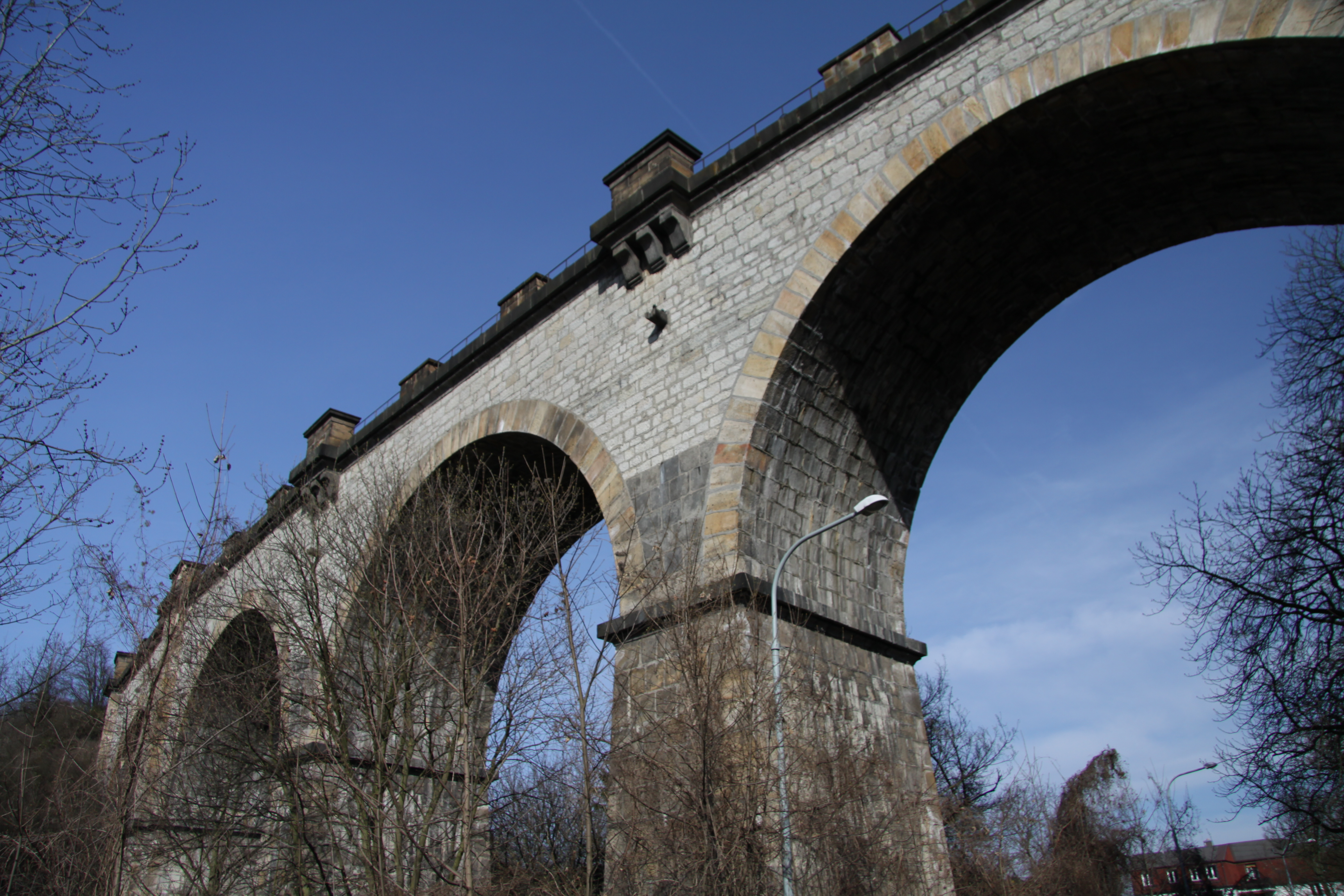 North-west viaduct of the Prague Semmering in Prague, Czech Republic